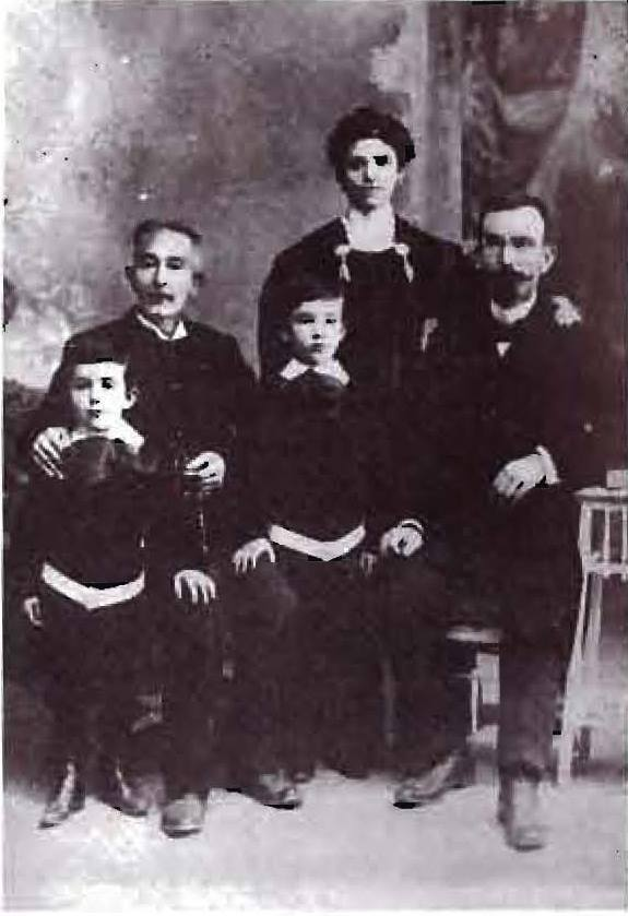 Dalchevs Family 1909 Istanbul - Atanas Dalchev, Atanas Dalchev, Lyubomir Dalchev, Victoria Dimshova, Hristo Dalchev